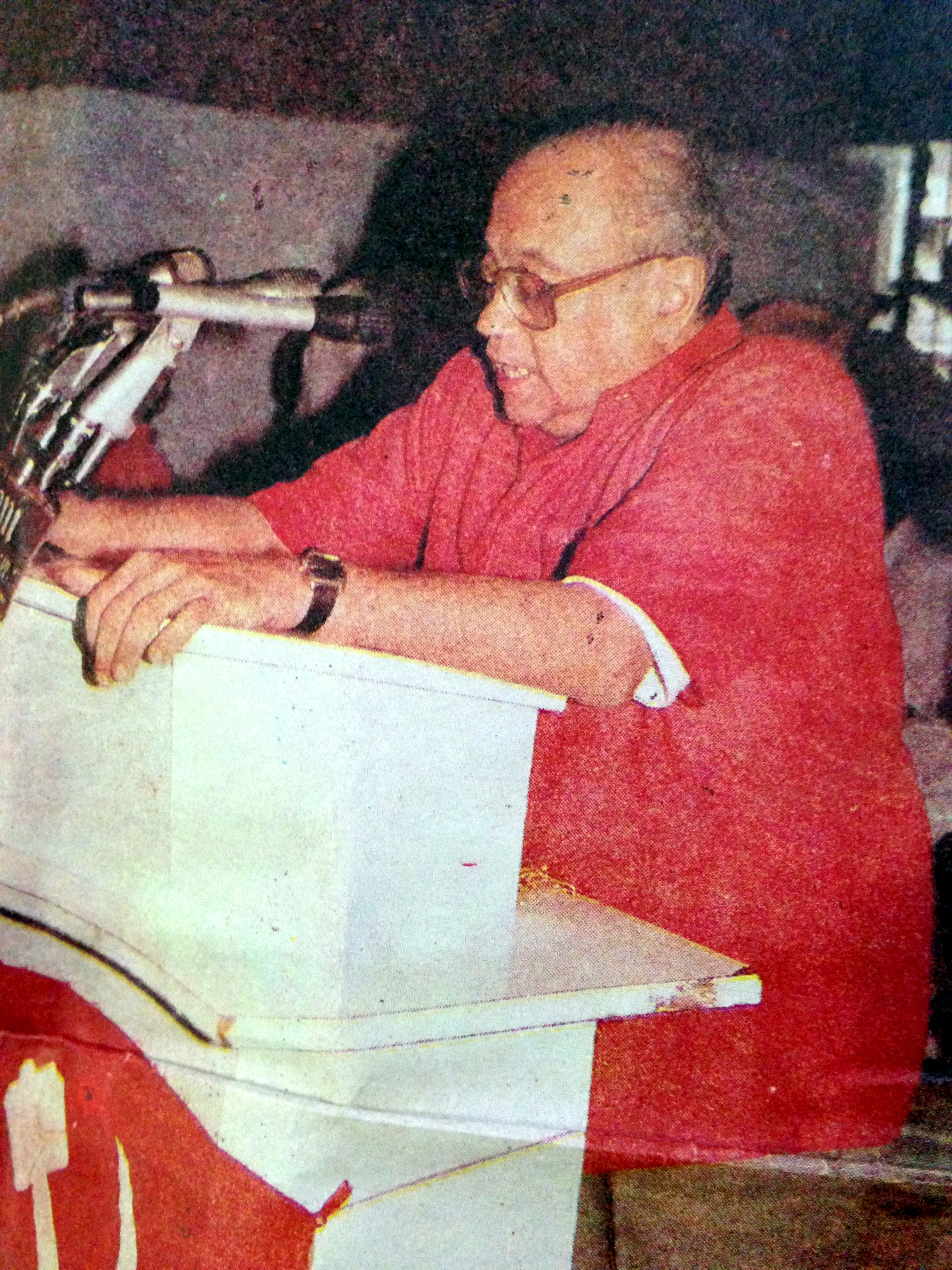 Mohit Sen was an Indian Communist leader.